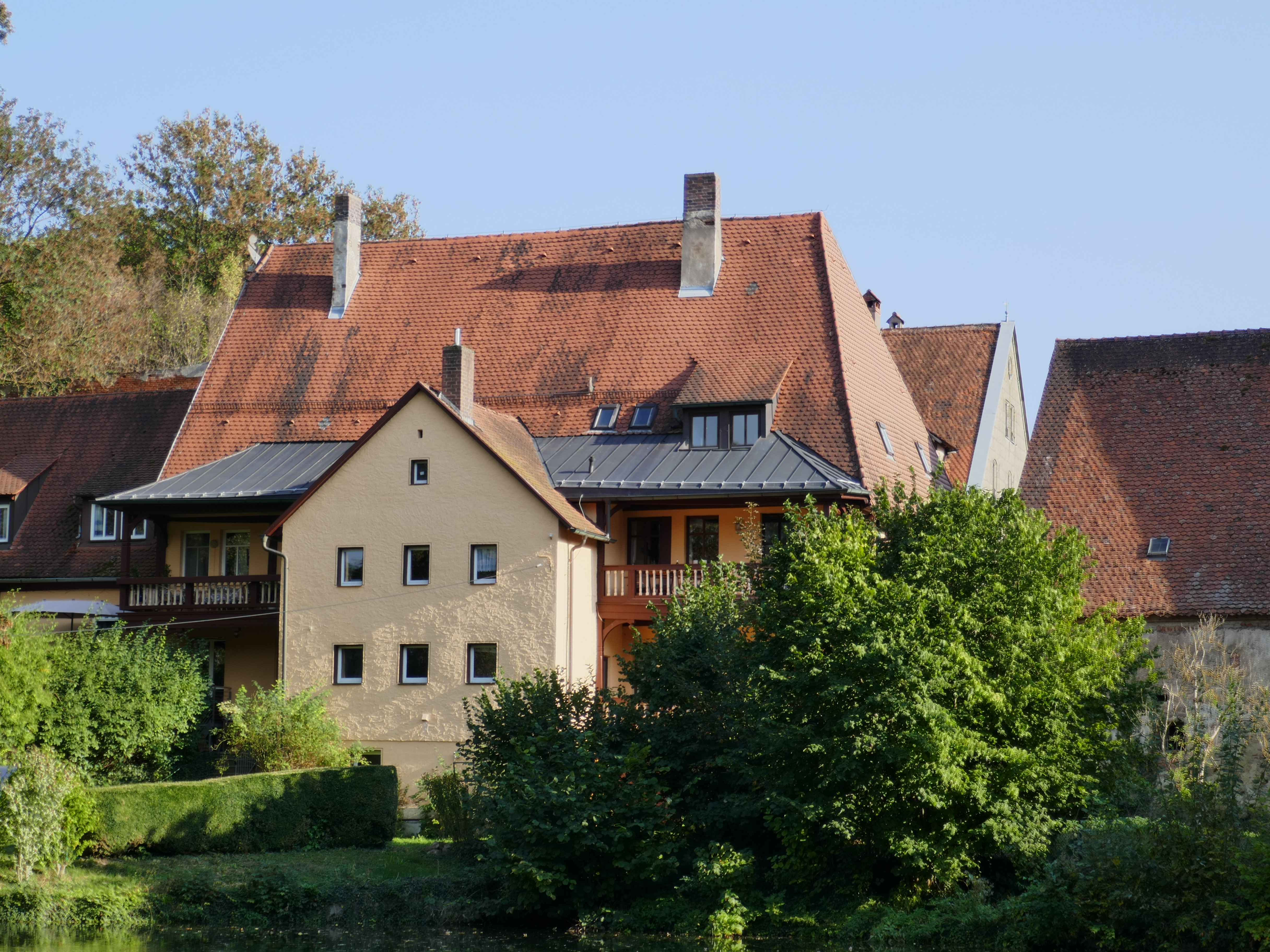 Rückseite zum Weiher